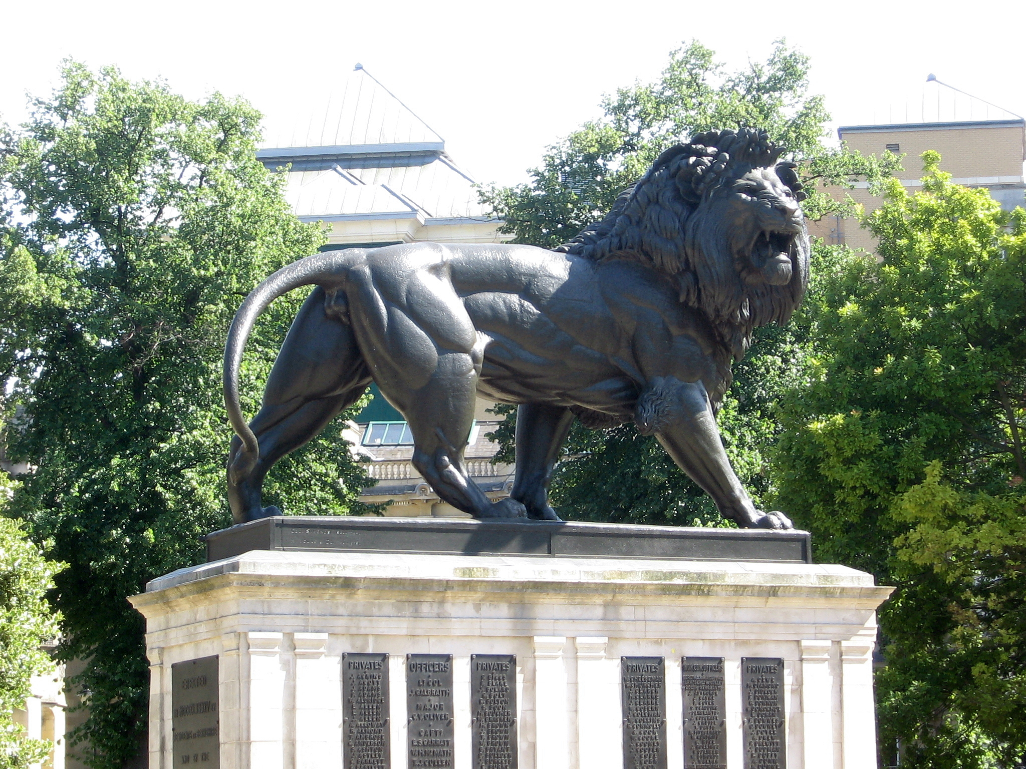 The Maiwand Lion cast iron statue in Forbury Gardens, Reading, Berks, UK. This photo was taken by me, JanesDaddy, on July 15th 2006, and is released under an open license. Category:Reading, Berkshire